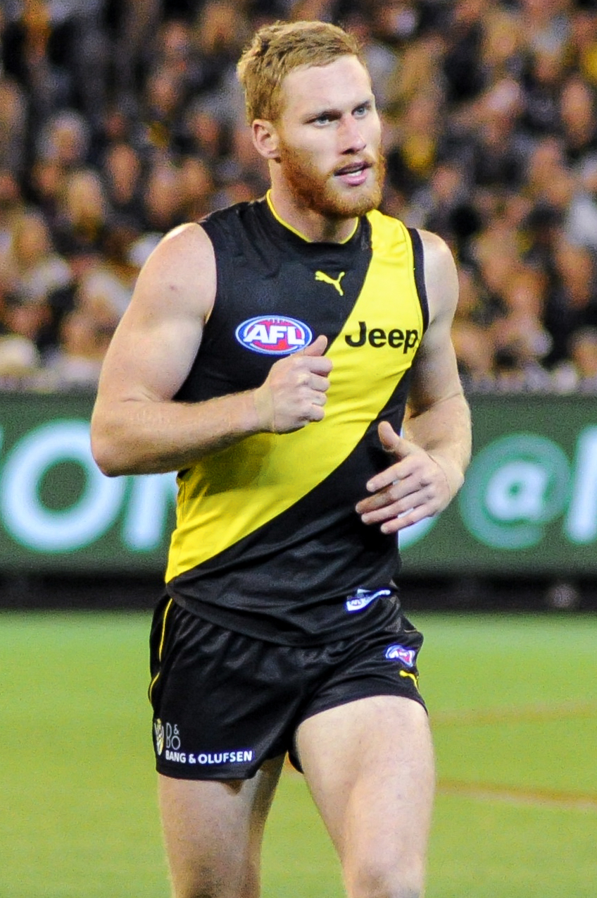 Nick Vlastuin during the AFL round two match between Richmond and Collingwood on 30 March 2017 at the Melbourne Cricket Ground in Melbourne, Victoria.